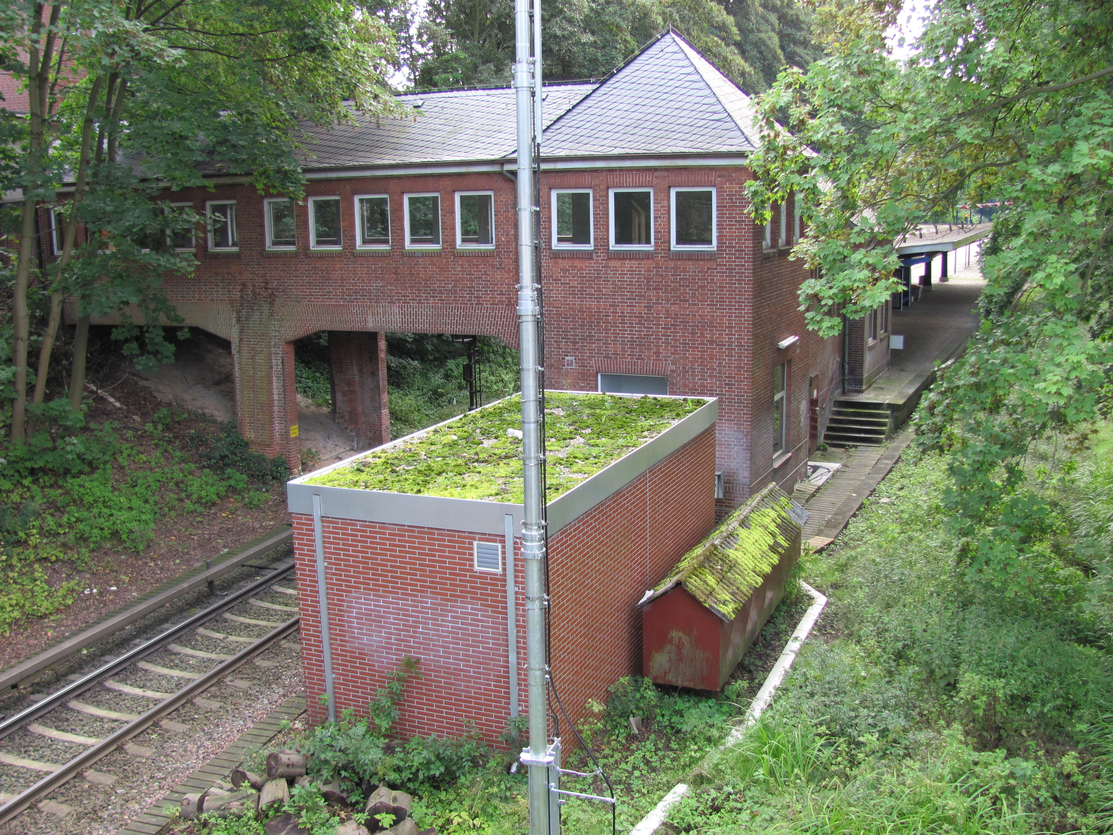 U-Bahn station Kiekut in Großhansdorf, Germany